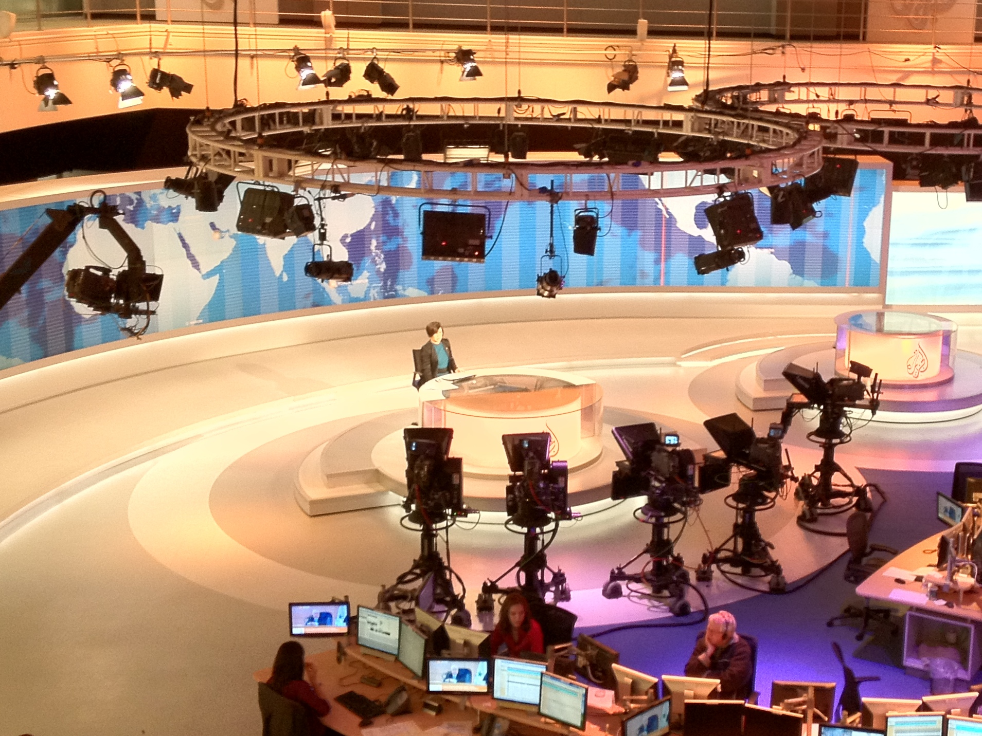 Photo from balcony overlooking main television studio towards presenter's desk in the Doha headquarters.